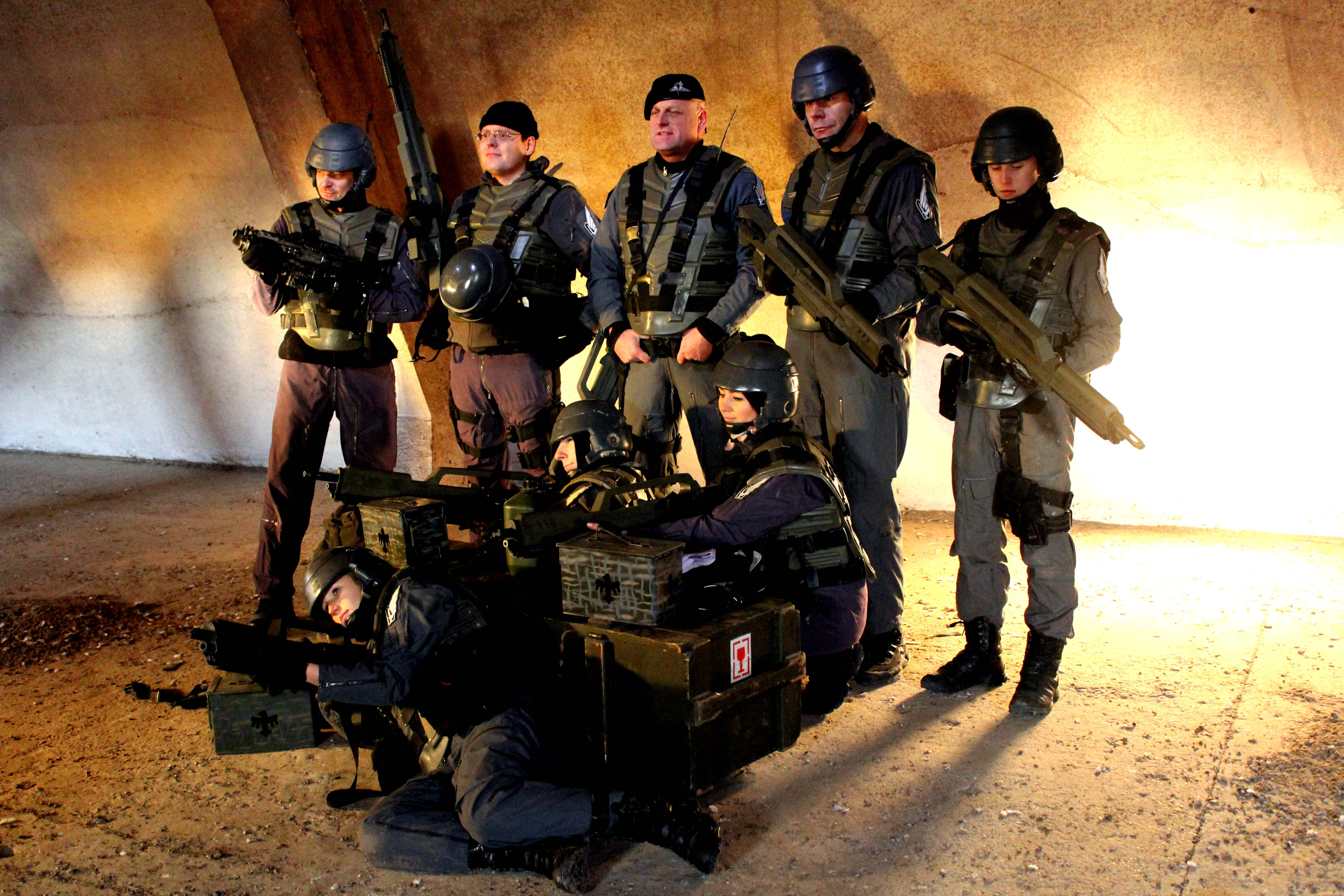 Cosplay Gruppe Starship Trooper German Division. Would you like to know more?